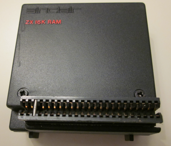 Sinclair 16K RAM memory module, externally connected the ZX81 computer